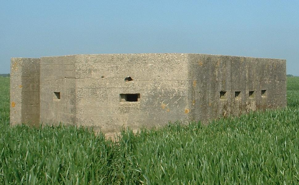 Pillbox - Type Lozenge, Atwick, East Riding of Yorkshire, England, OS reference TA194512 Easy access from public footpath. Photographed by Gaius Cornelius on 07-Jun-06. OS reference TA194512